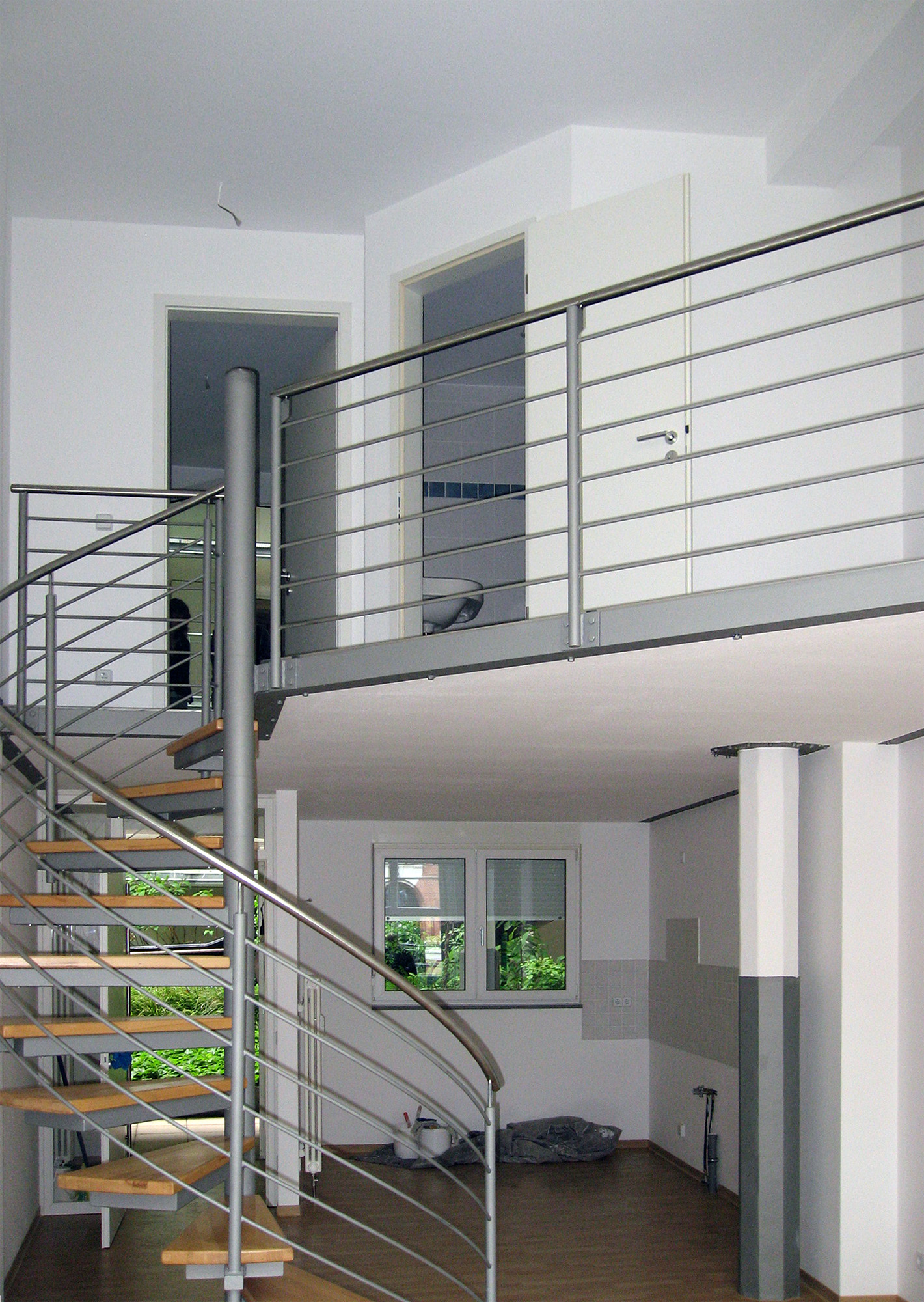 Kammgarnspinnerei in Leipzig, loft apartment in the “Hochbau West” (Elster Lofts), the ceiling height is 5 meters and is divided by a gallery-level